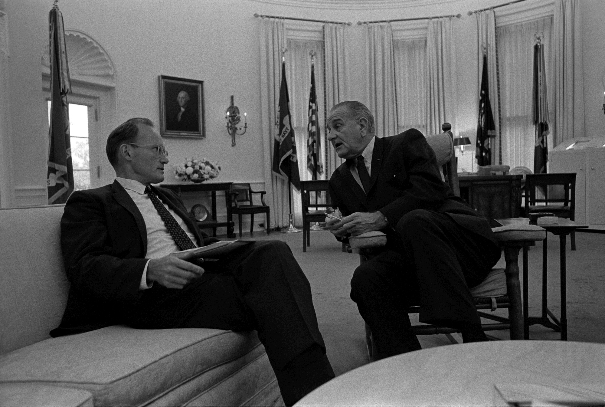 President Lyndon B. Johnson meets with McGeorge Bundy